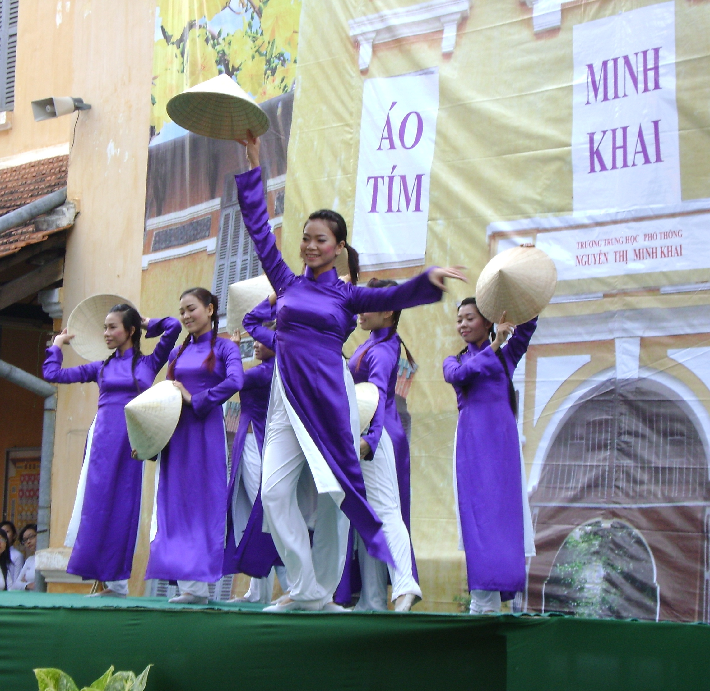 My entire schoolmate danced with Áo Dài in the 95th anniversary of my senior highschool. It was taken in January 10, 2009.